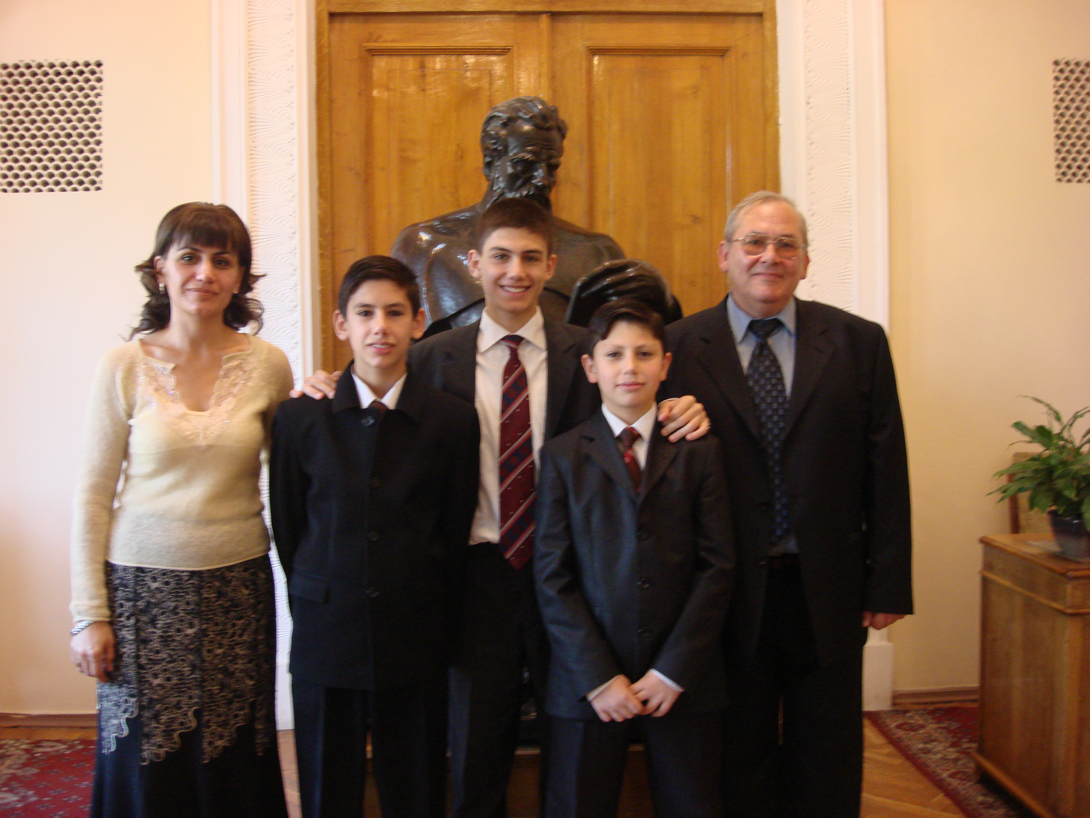 Okoyev